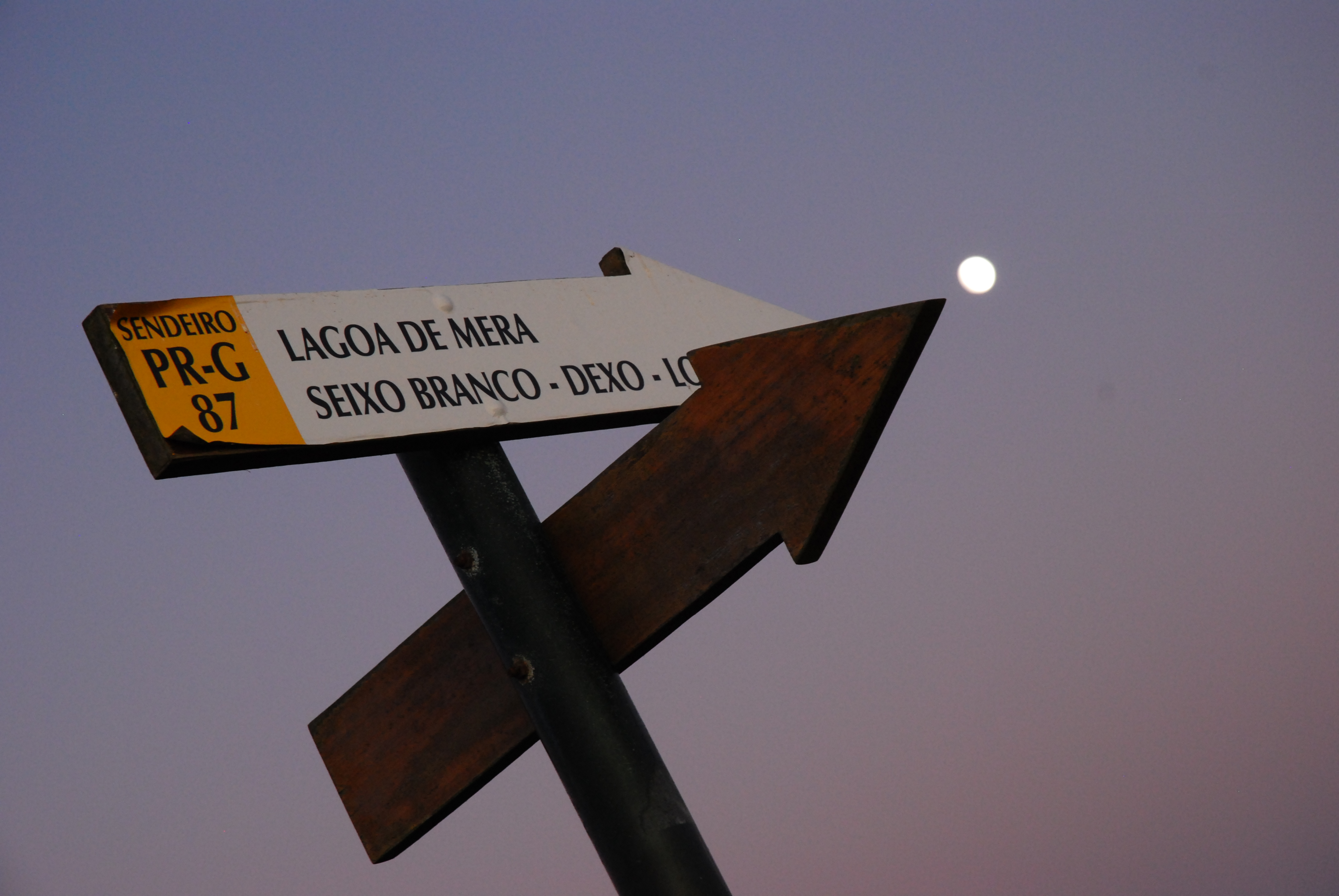 This is a photography of a Special Area of Conservation in Spain with the ID: ES1110009. Natura2000 entry, EEA entry